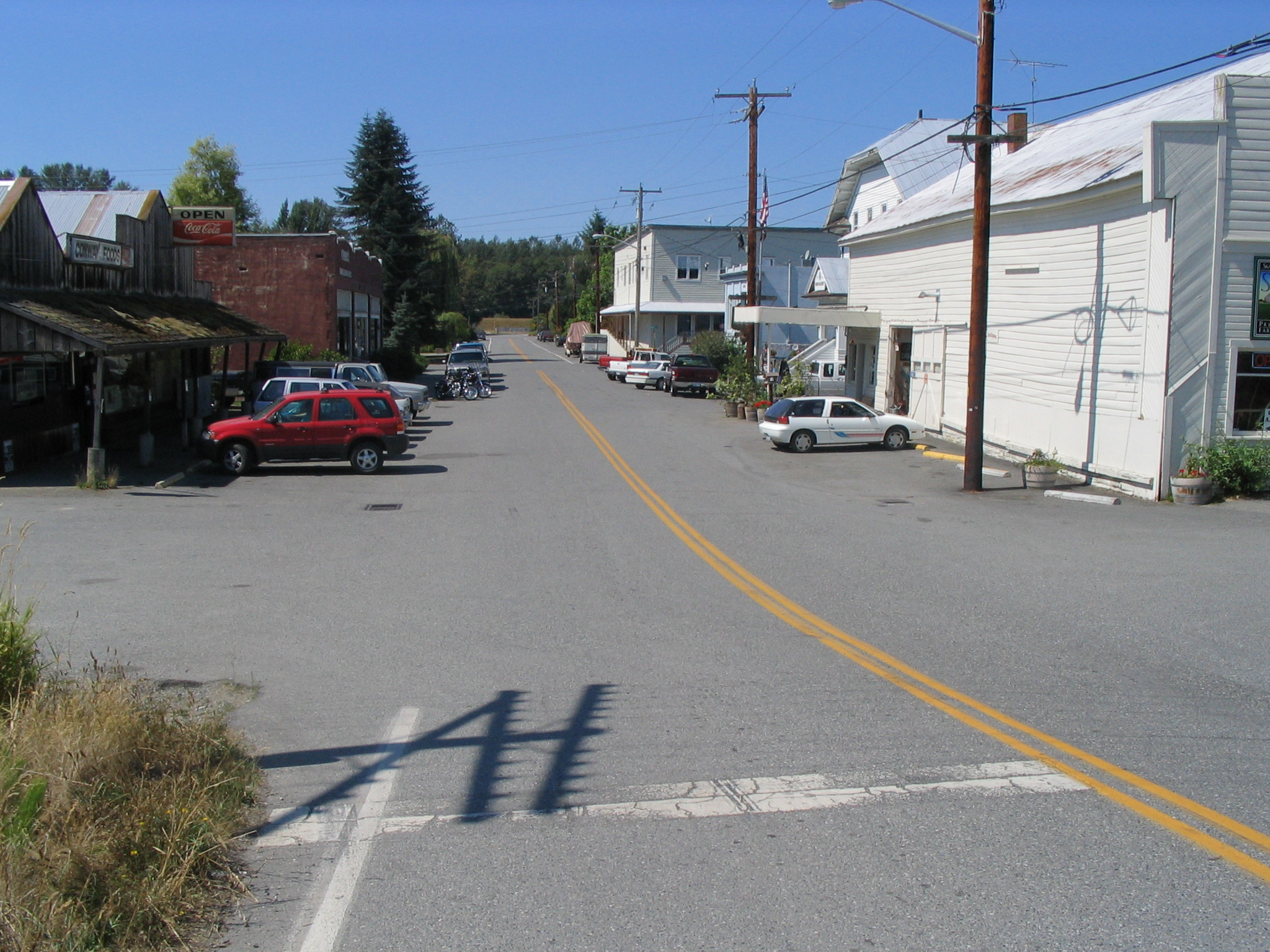 self taken photo